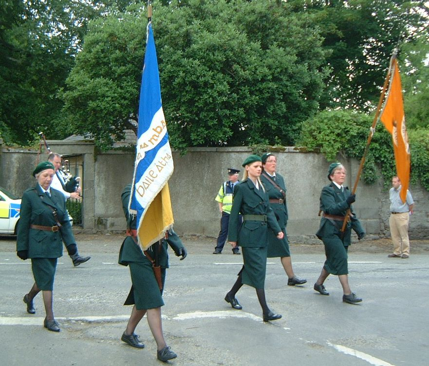 Members of Cumann na mBan marching in Bodenstown in 2004.